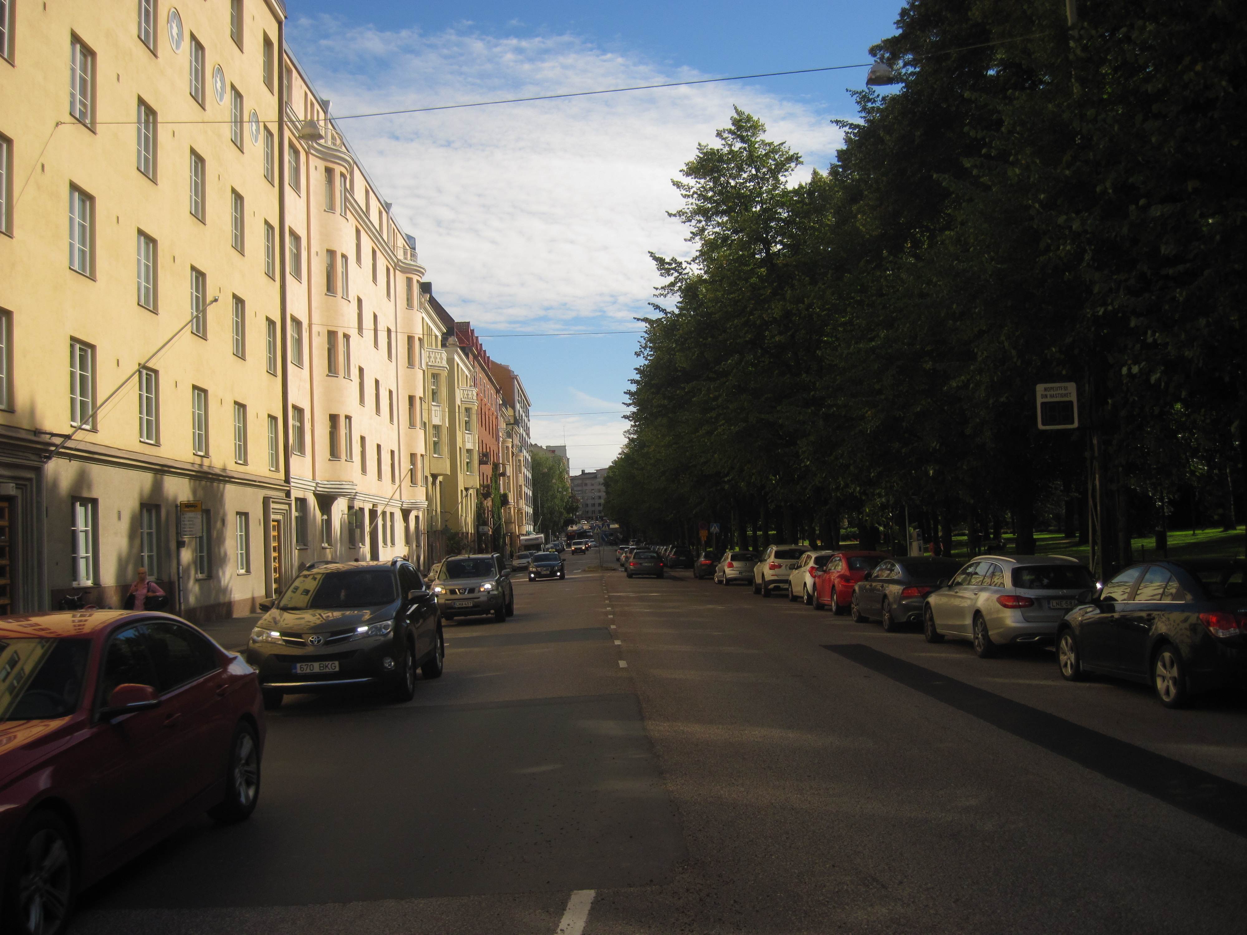 Topeliuksenkatu in Helsinki, as seen southwards from the corner of Humalistonkatu